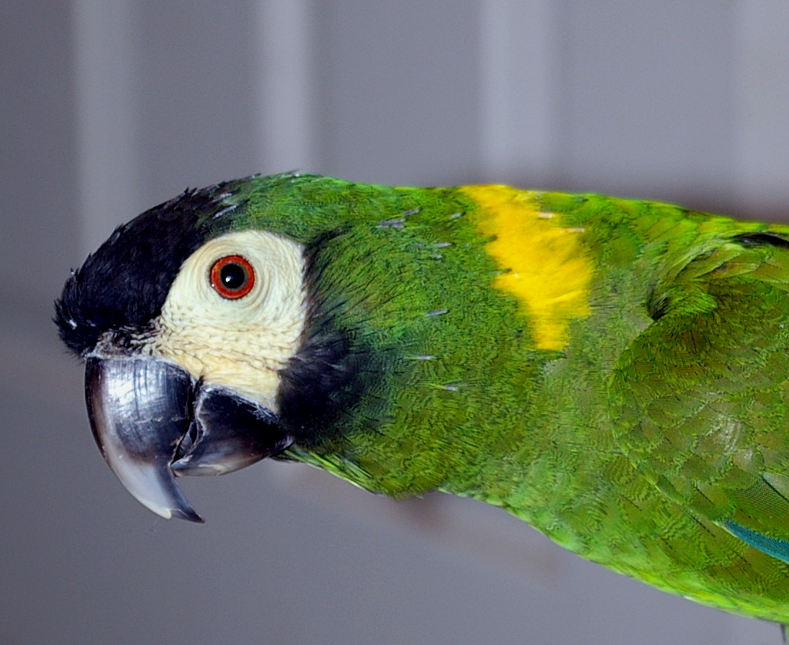 Golden-collared Macaw (also known as the Yellow-collared Macaw). A pet parrot.